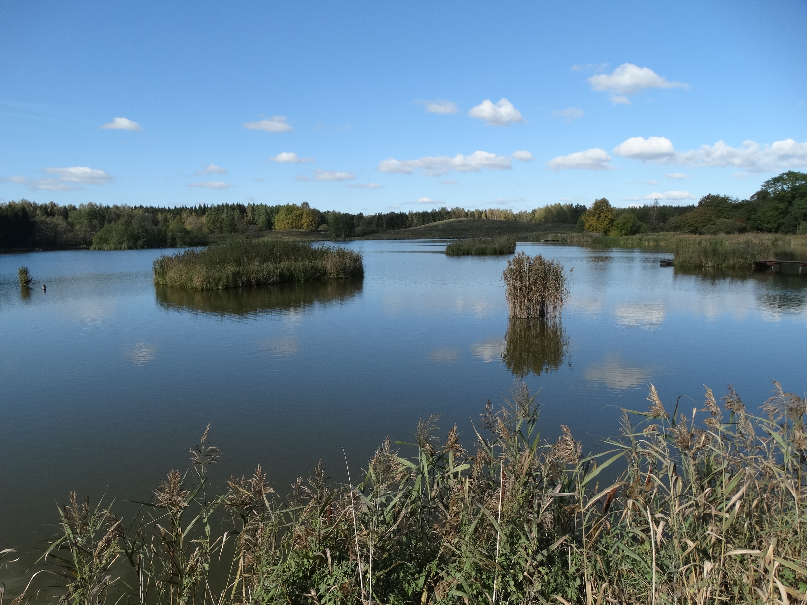 Lake by Sutartiškės, Kaišiadorys district, Lithuania